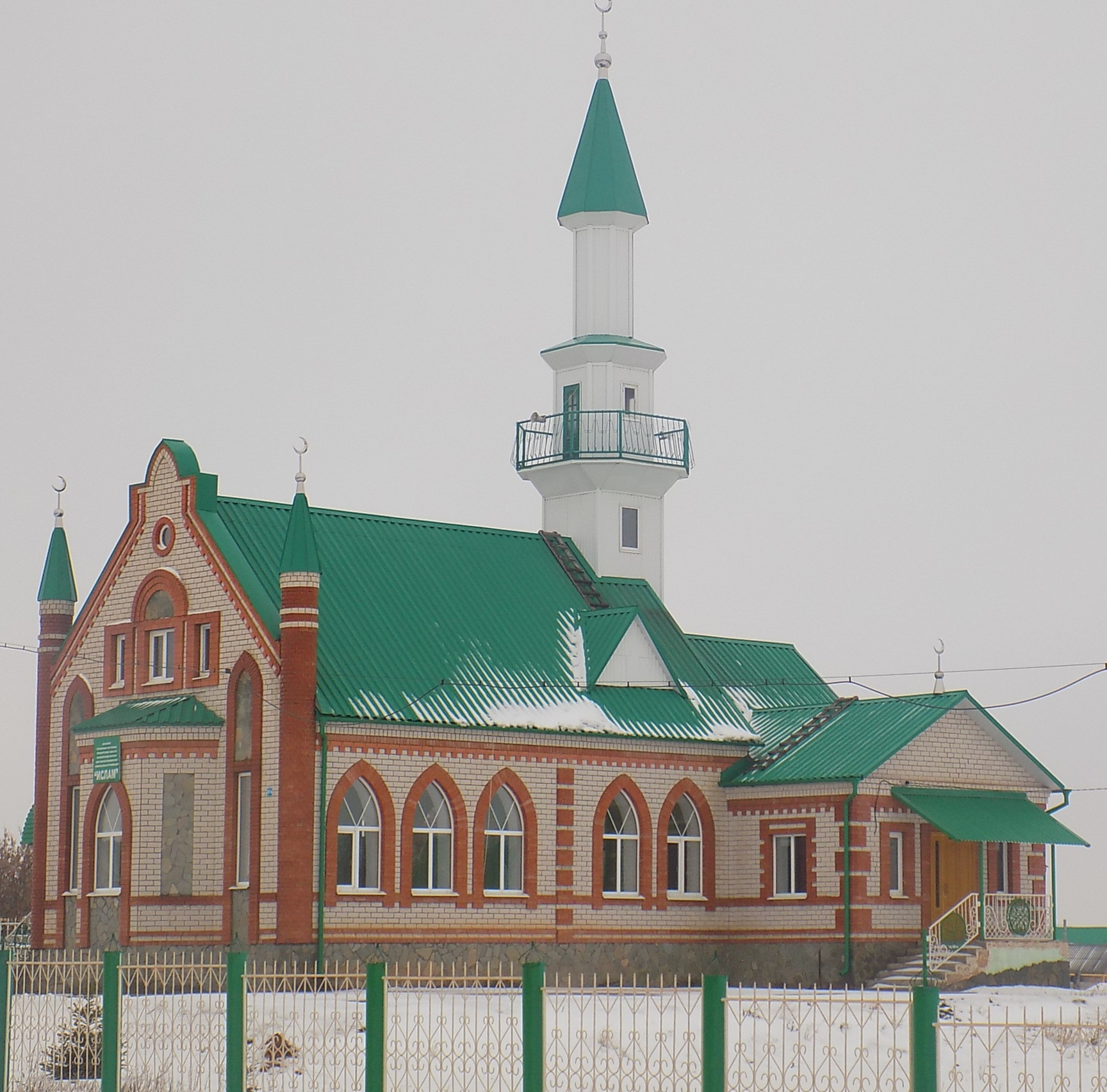 Mosque in the village of Pleshanovo, Krasnogvardeisky district, Orenburg region.